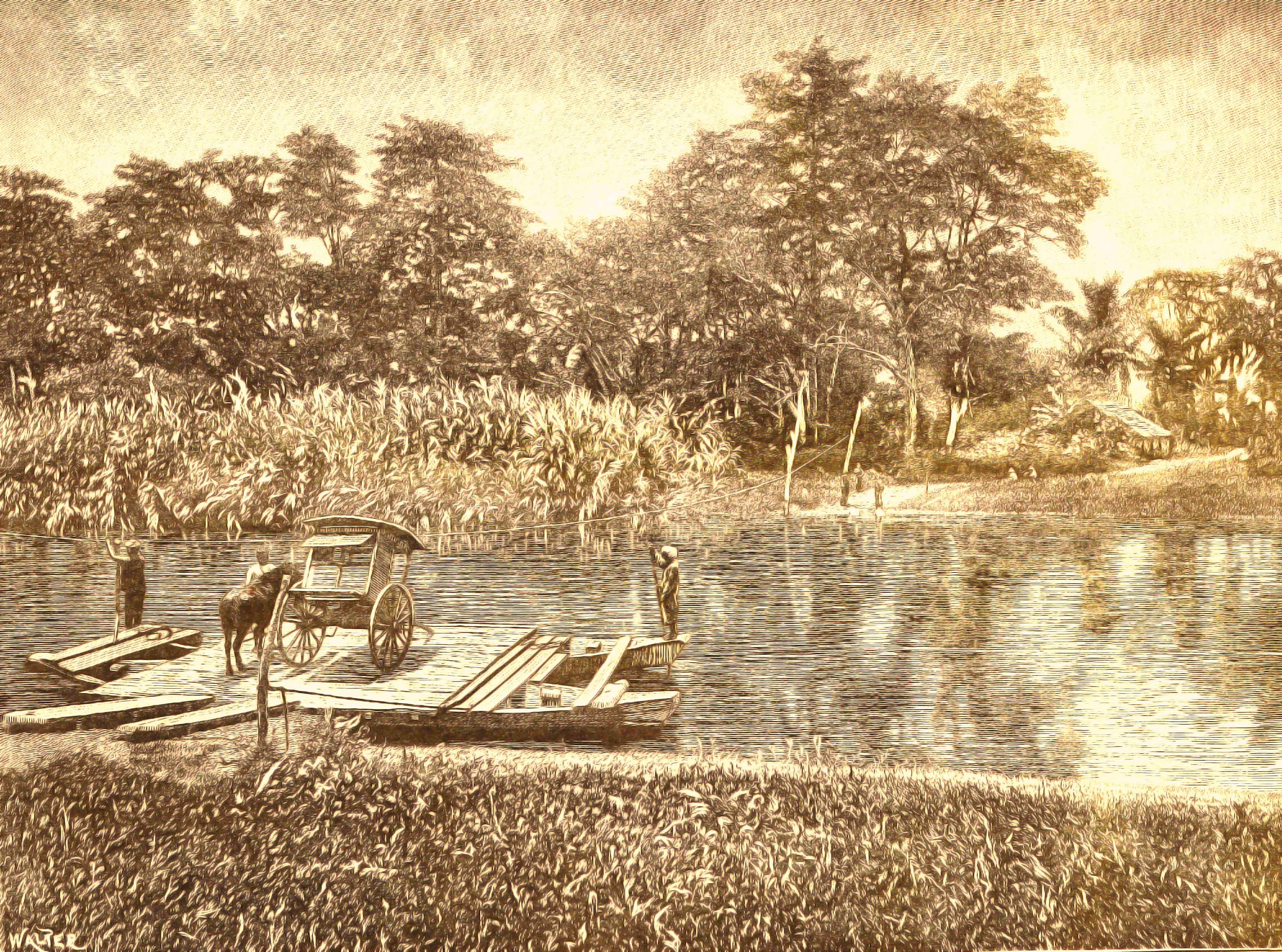 Pont over de Belawangrivier te Deli